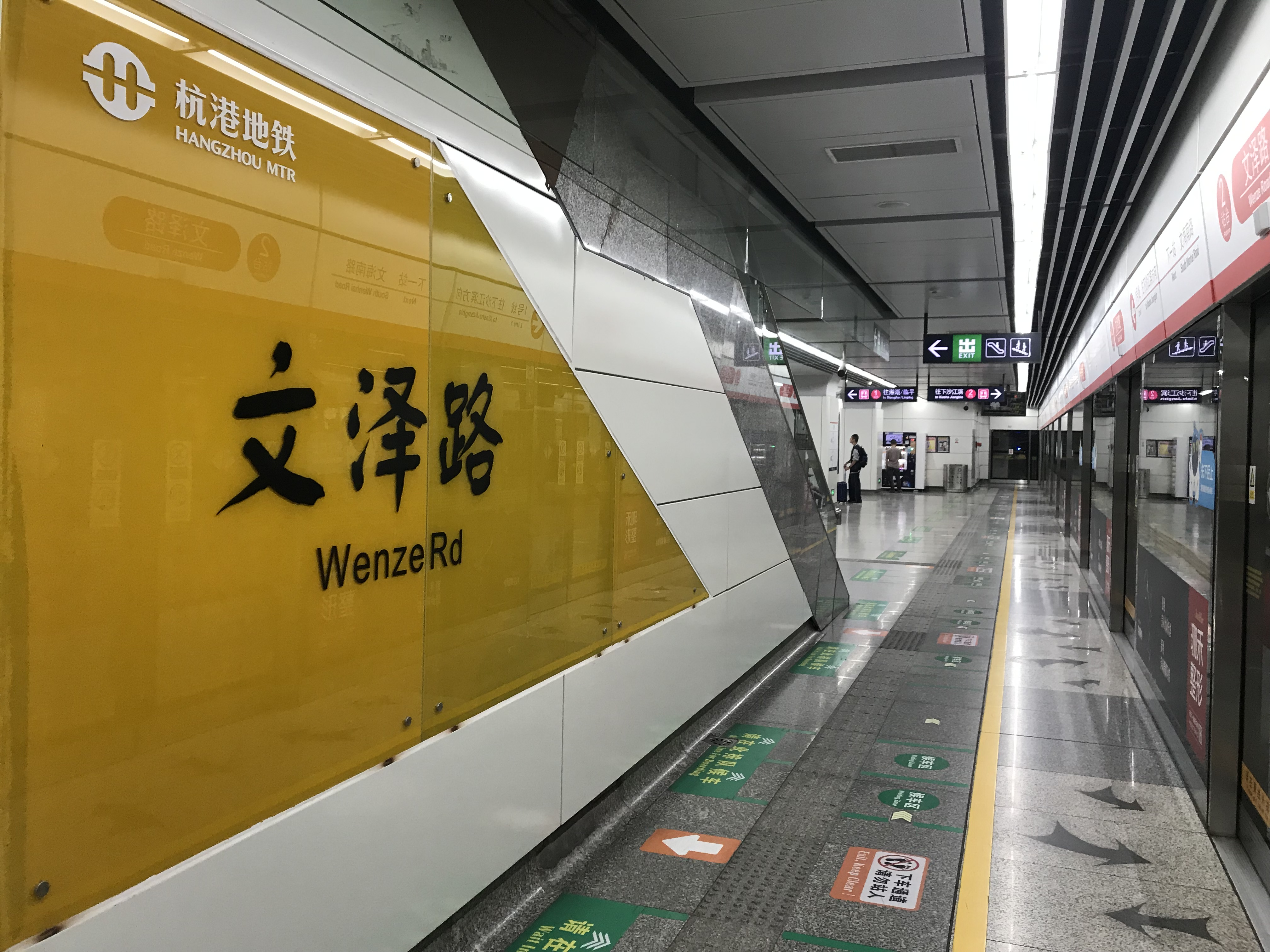 201806 Nameboard of Wenze Road Station